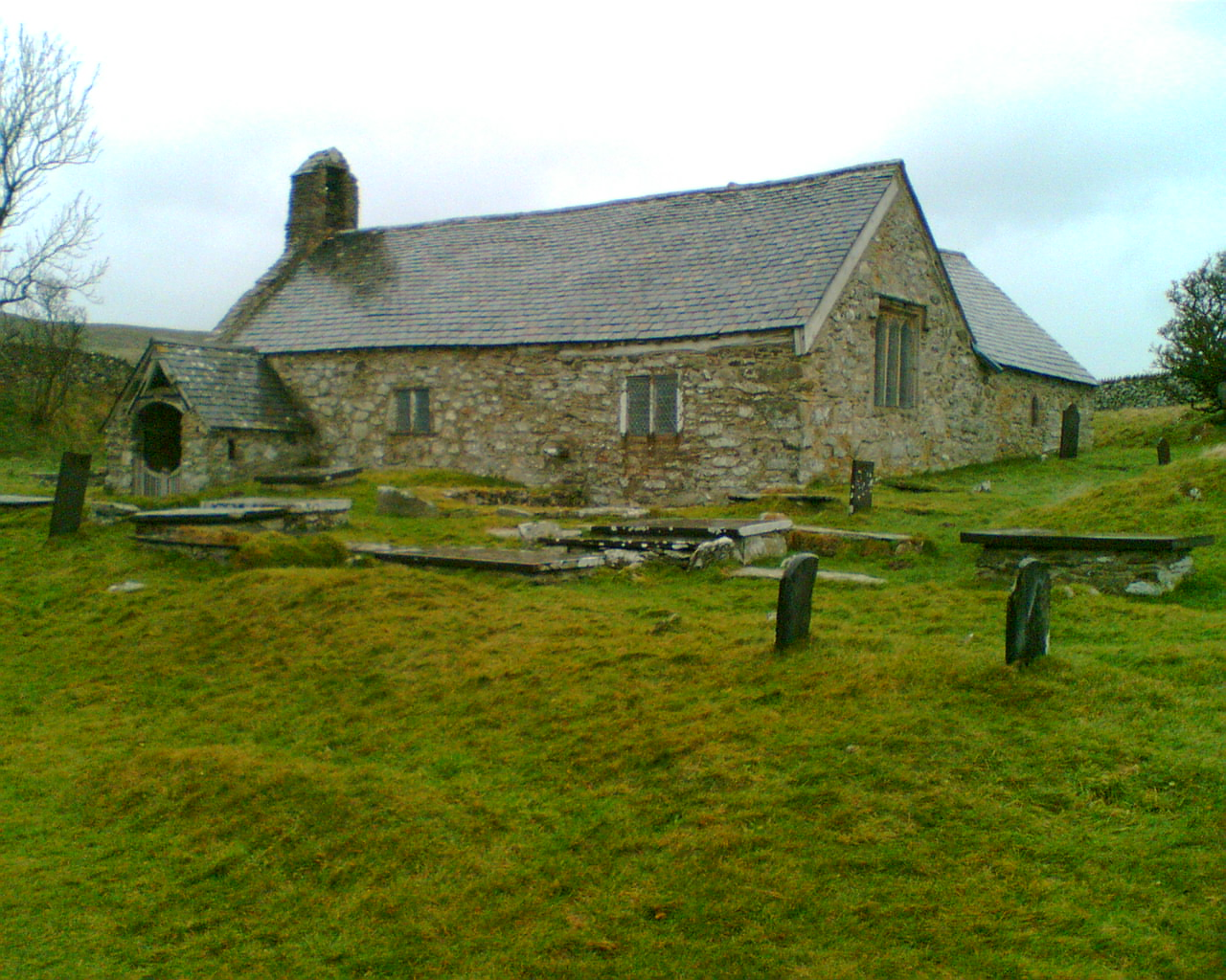 Photo of Llangylennin Church.